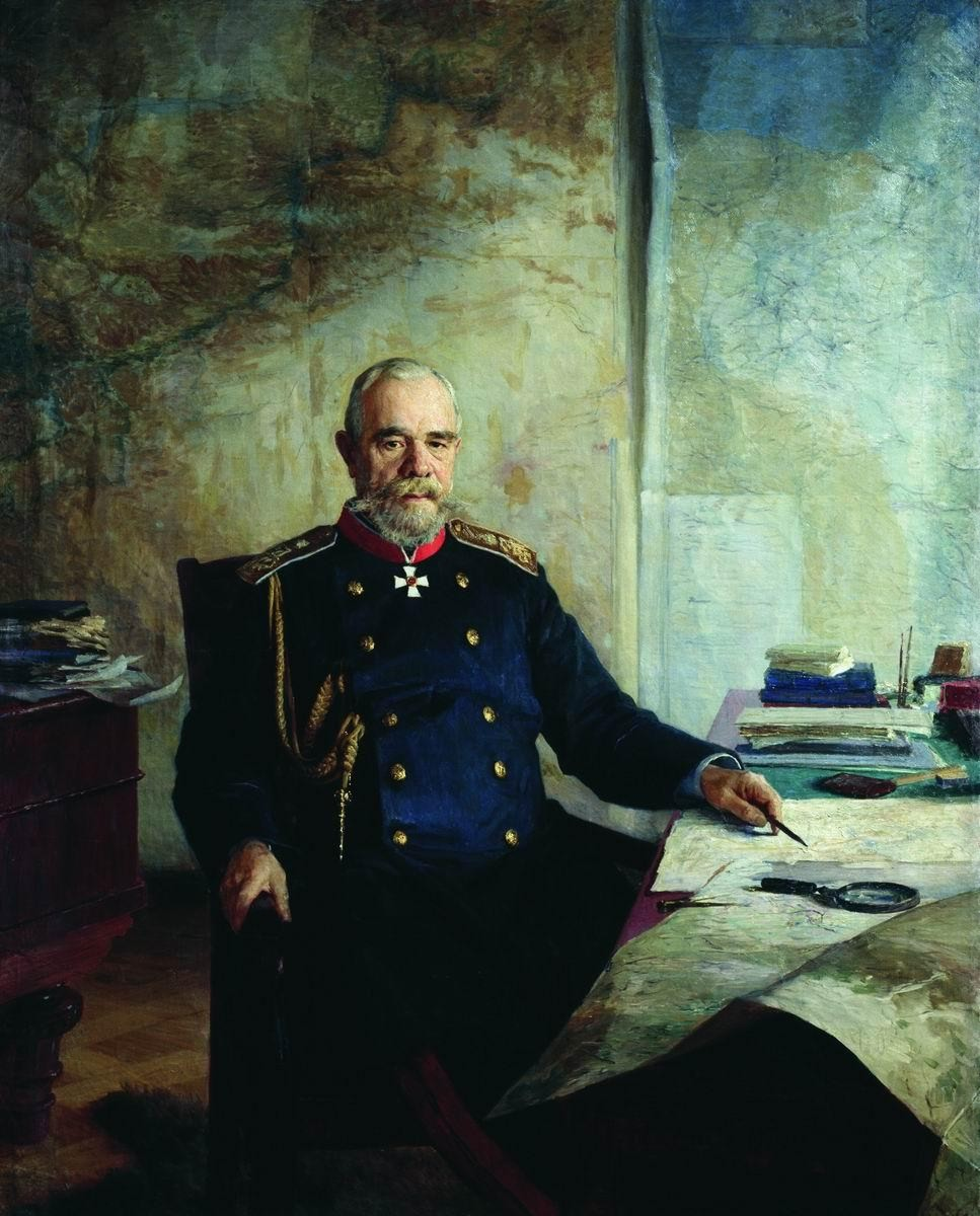 Portrait of Nikolai Obruchev (1830—1904). Oil on canvas. Memorial Museum-Estate of the artist Nikolai Yaroshenko. Kislovodsk, Russia